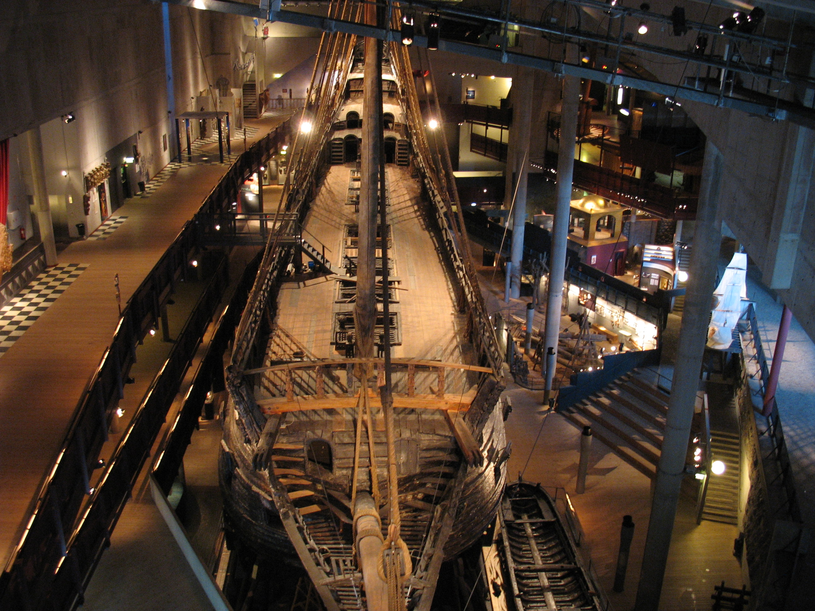 The 17th century warship Vasa on display at the Vasa Museum in Stockholm. Shot from the lighting service catwalk under the ceiling of the museum